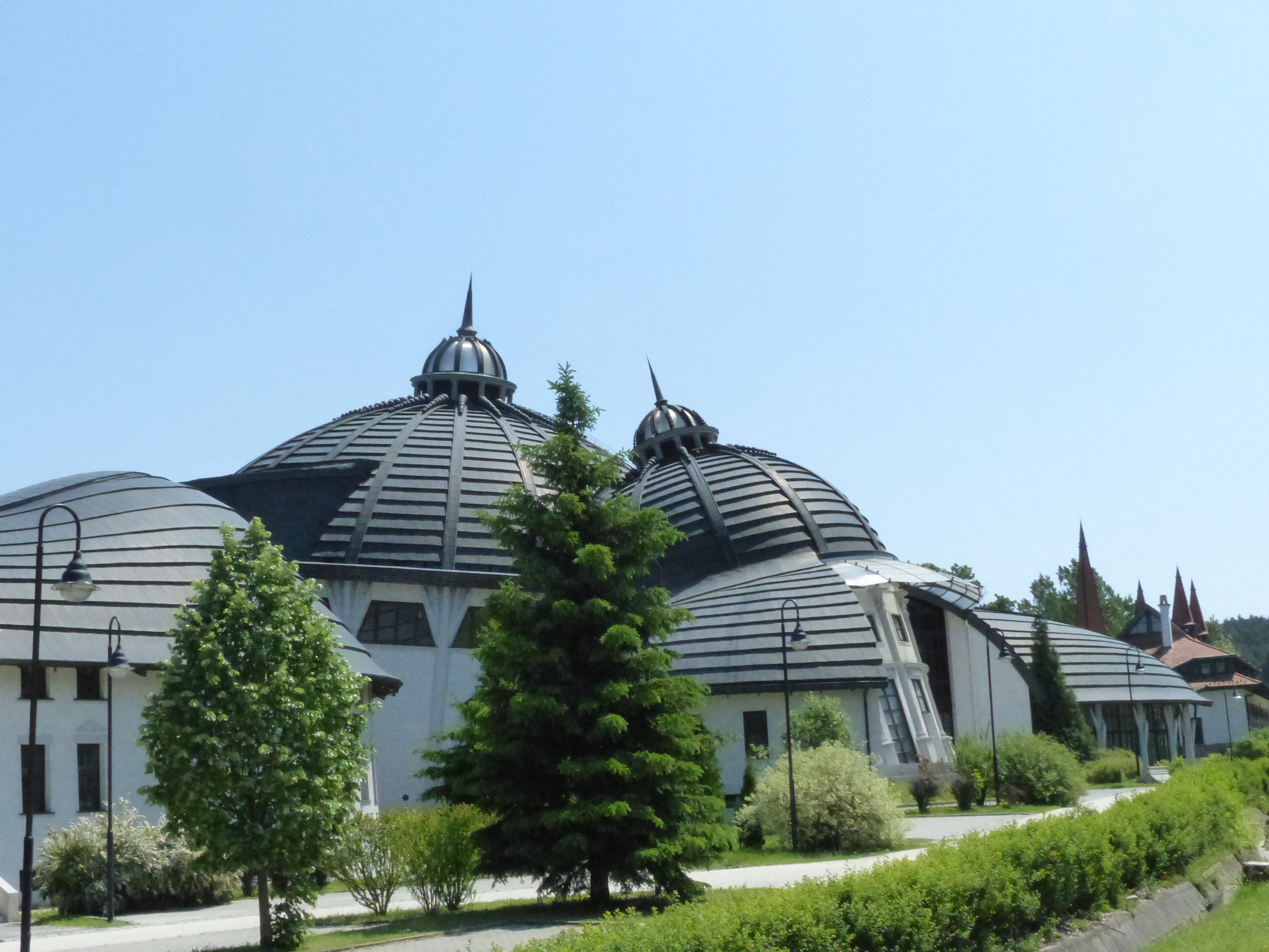 Stephaneum. Pázmány Péter Catholic University, main building of the Faculty of Humanities. Taken on the 20th of May, 2017. Piliscsaba, Hungary, Central Europe.